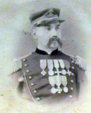 lieutenant colonel in the Piedmont army in the wars of italian independence